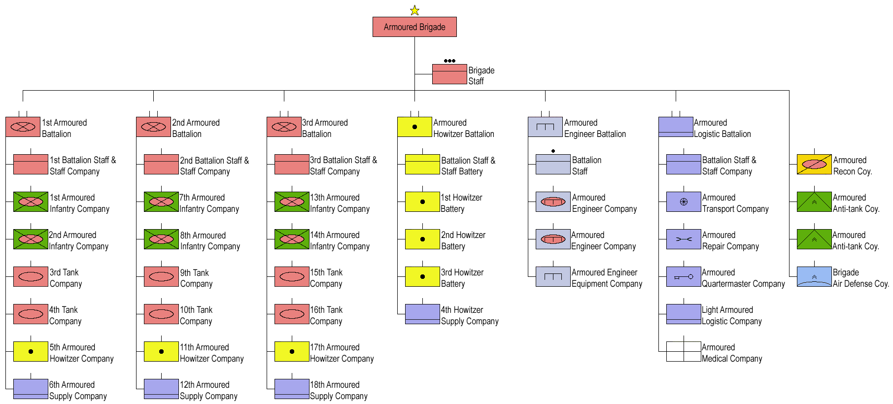 Structure of the Swedish Armoured Brigade Type 63M